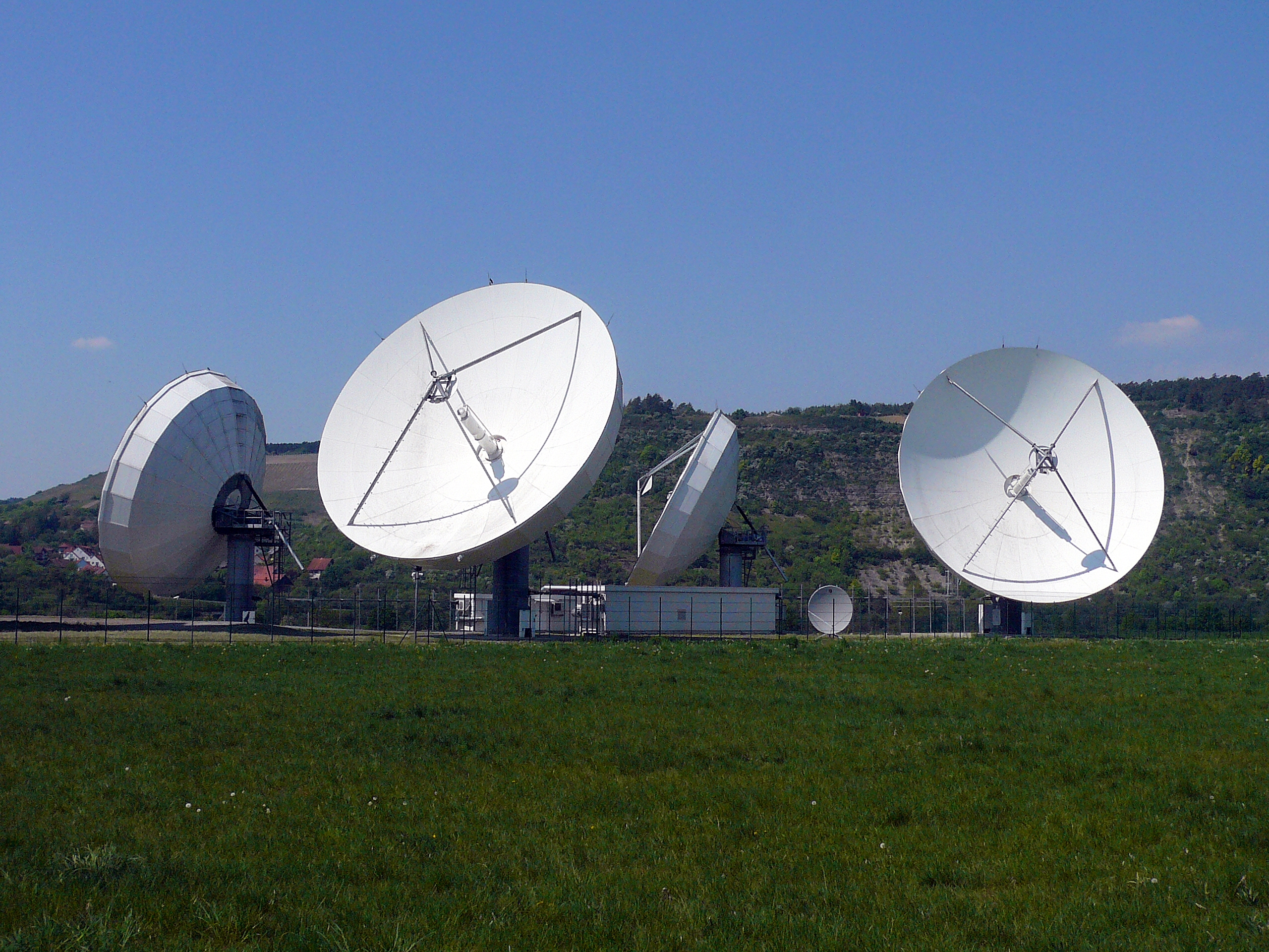 Satellite ground station Fuchsstadt, Germany, aerialfield two